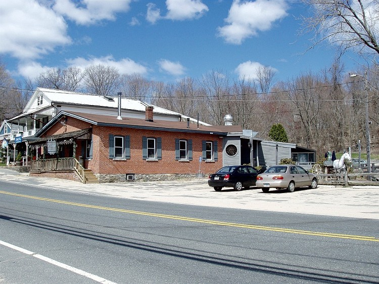 Bidwell Tavern, Coventry, Connecticut. Part of the South Coventry Historic District.